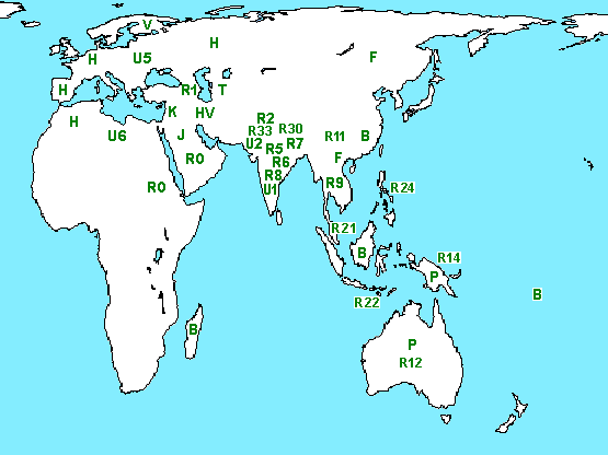 Geography of haplogroup R (mtDNA) subclades.